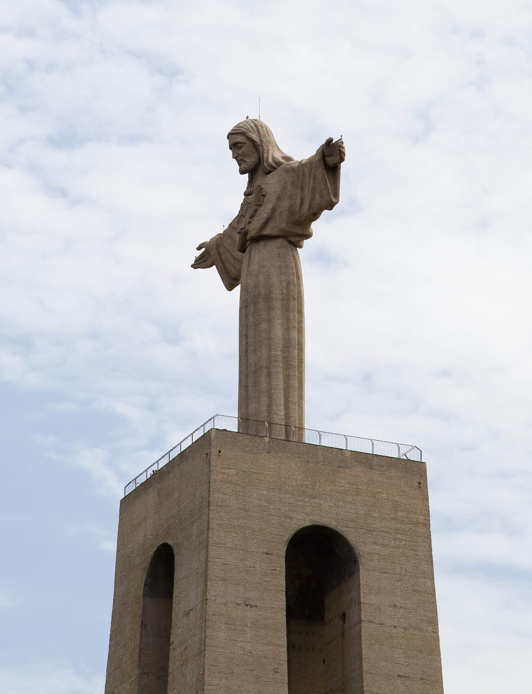 Cristo Rei, Lisbon, Portugal